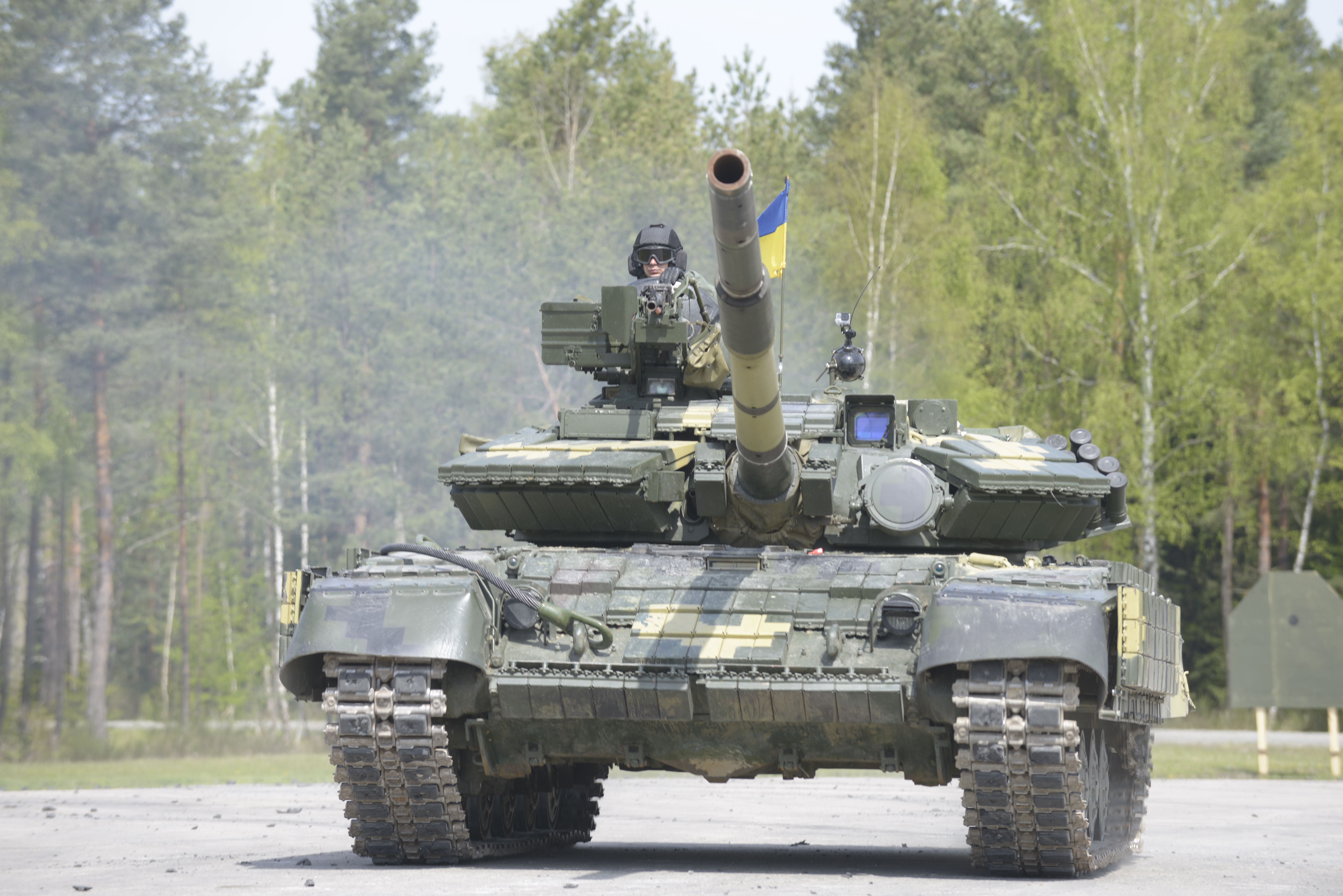 Ukrainian T-64BM tank crews conduct the Defensive Operations lane during the Strong Europe Tank Challenge (SETC) at the 7th Army Training Command’s Grafenwoehr Training Area, May 10, 2017. The SETC is co-hosted by the United States Army Europe and the German Army, May 7-12, 2017. The completion is designed to project a dynamic presence, foster military partnership, promote interoperability, and provides an environment for sharing tactics, techniques and procedures. Platoons for six NATO and partner nations are in the completion. (Photos by MAJ Neil Penttila, 7th Army Training Command Public Affairs)